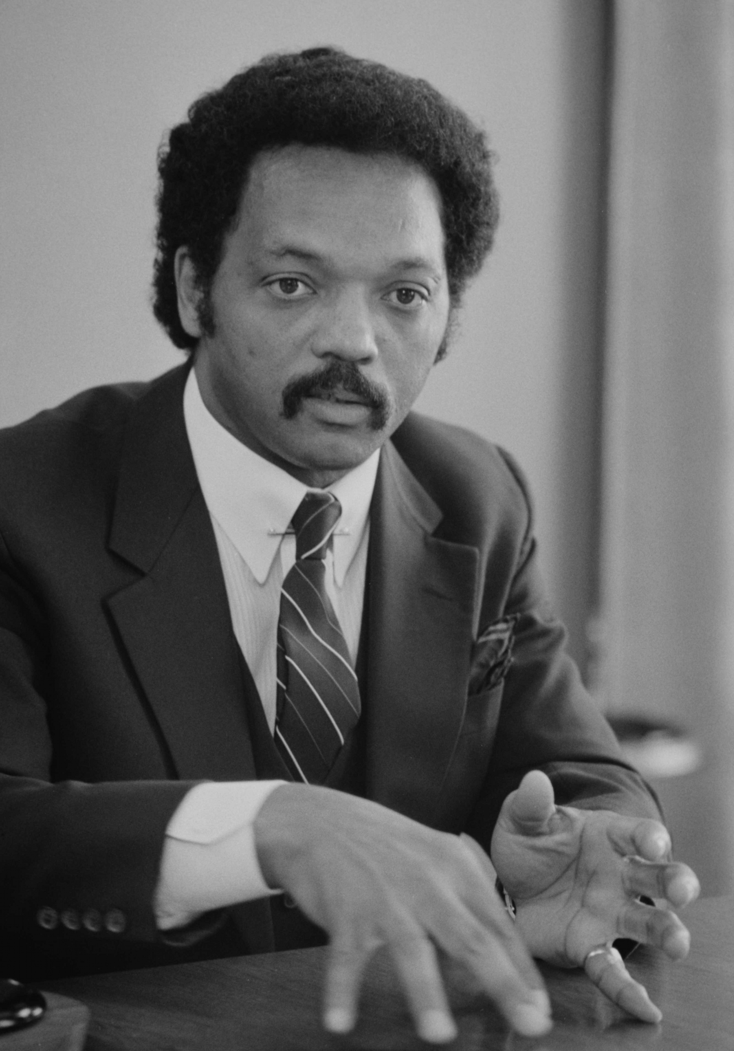 Jesse Jackson speaking during an interview in July 1, 1983.